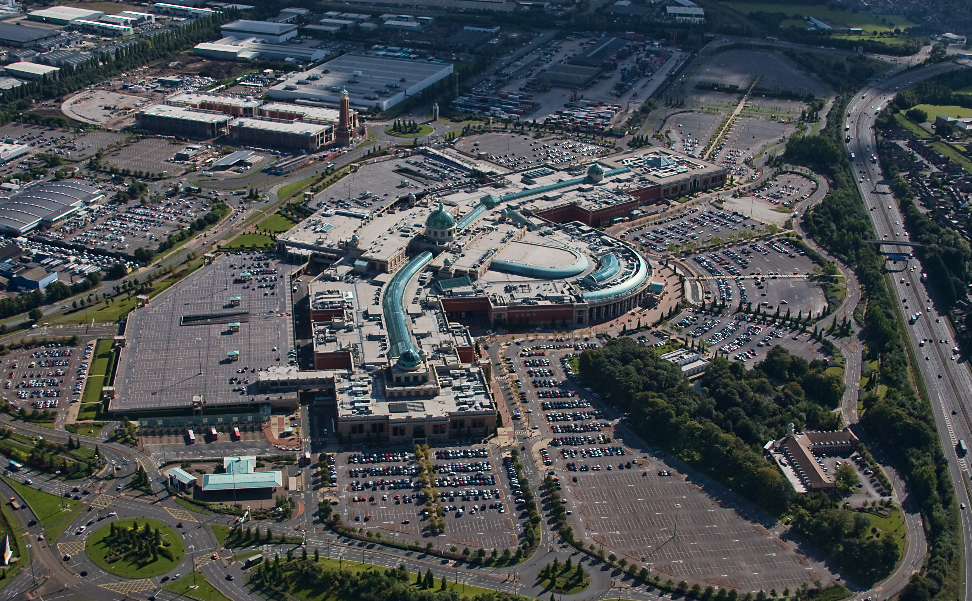 Trafford Centre & Barton Square from above. Image taken of Trafford Centre, J9 M60, near Manchester